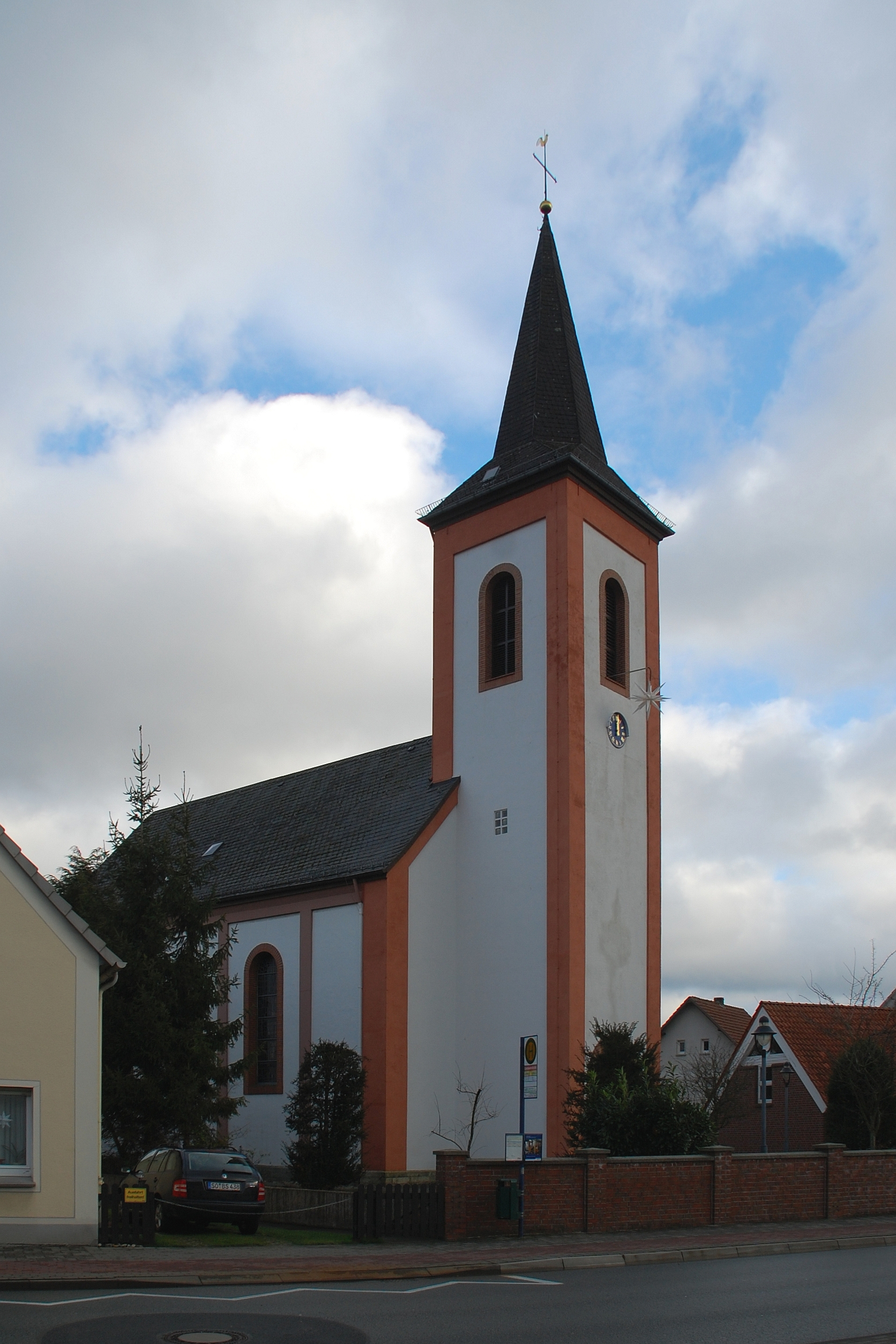 Lutheran-reformed church in Lipperode